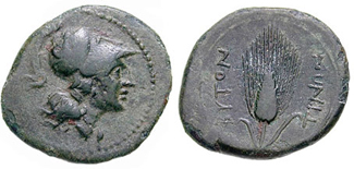 Apulia, Butuntum . Circa 275-225 BC. Æ Obol (6.12 g). Head of Athena right, wearing crested Corinthian helmet; serpent on helmet ΒΥΤΟΝ-ΤΙΝΩΝ, grain ear. VF, attractive dark green patina.